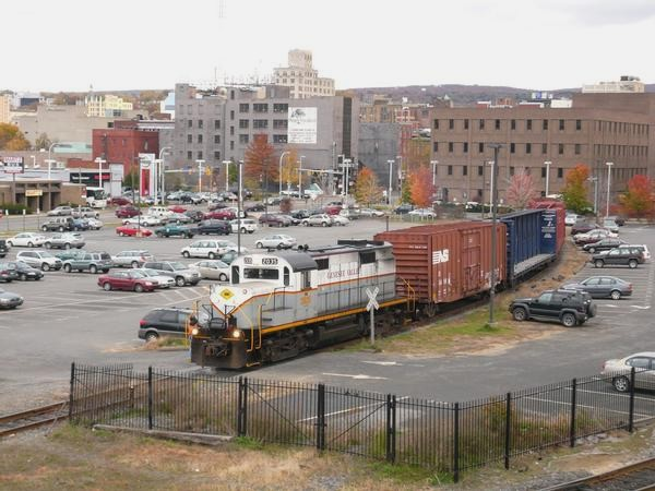 Charles Monte Verde picture- RS32 2035 switches the Diamond Branch on 'the' Delaware-Lackawanna Railroad in Scranton, Pennsylvania. (née-NYC 8035)